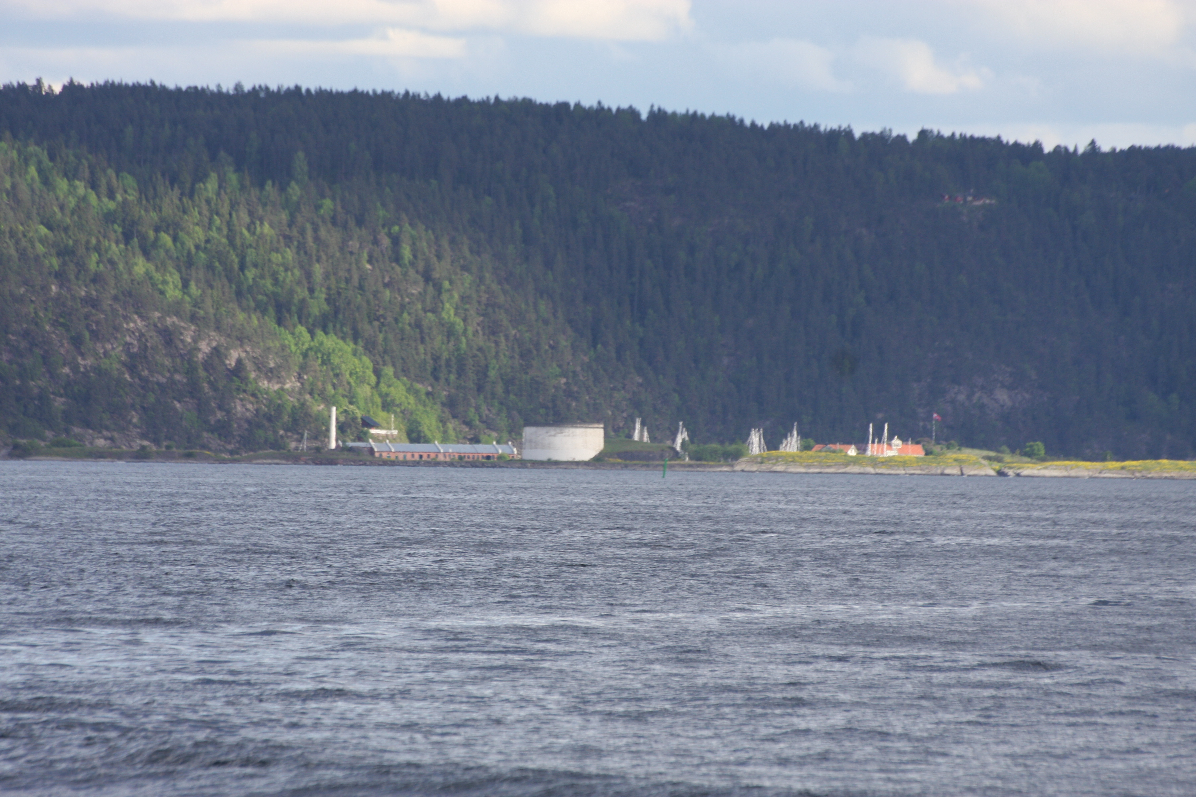 Steilene in the Oslo Fjord. Nesodden municipality, Akershus, Norway.